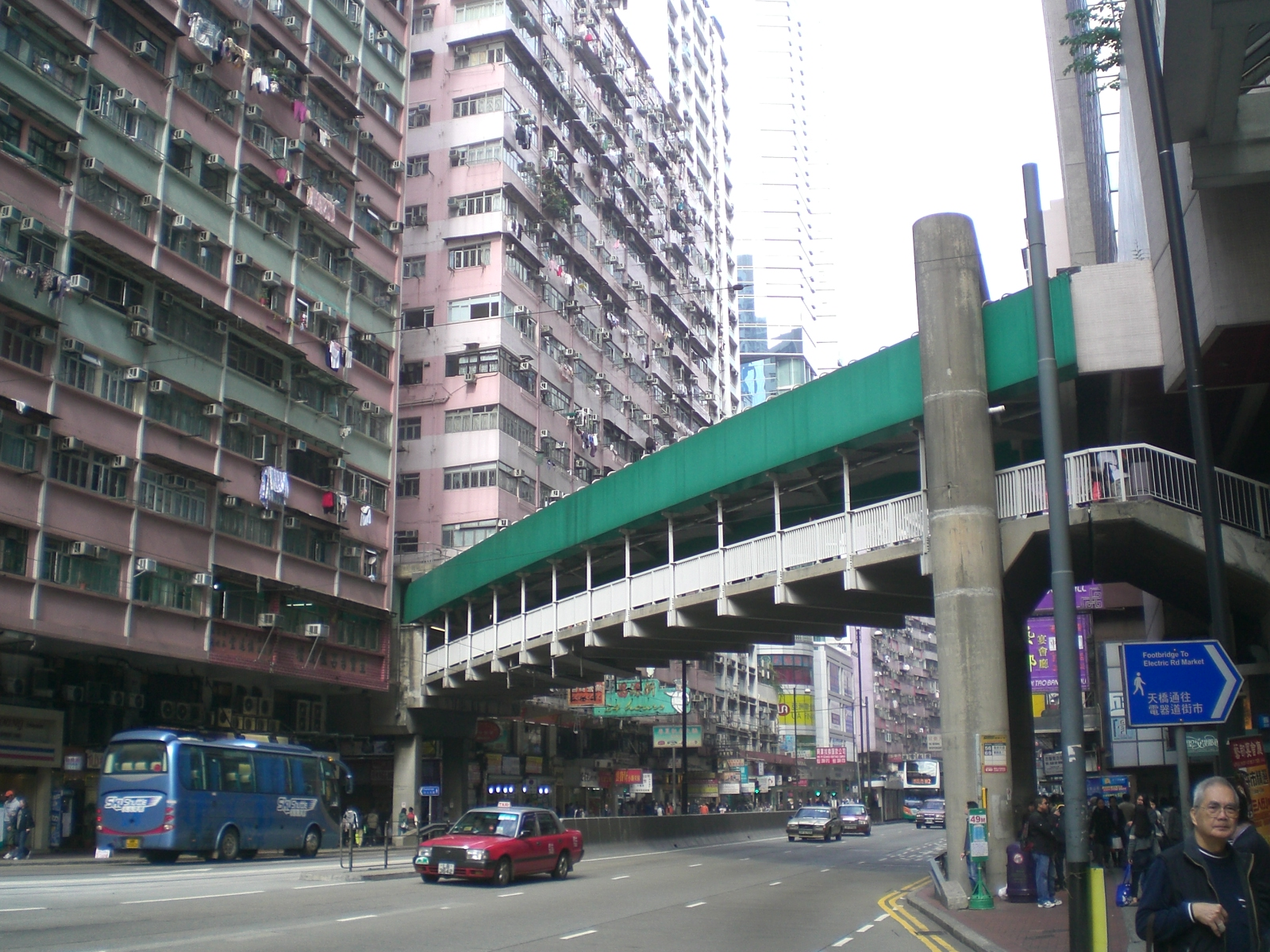 北角 英皇道 福元街 行人天橋 康澤花園